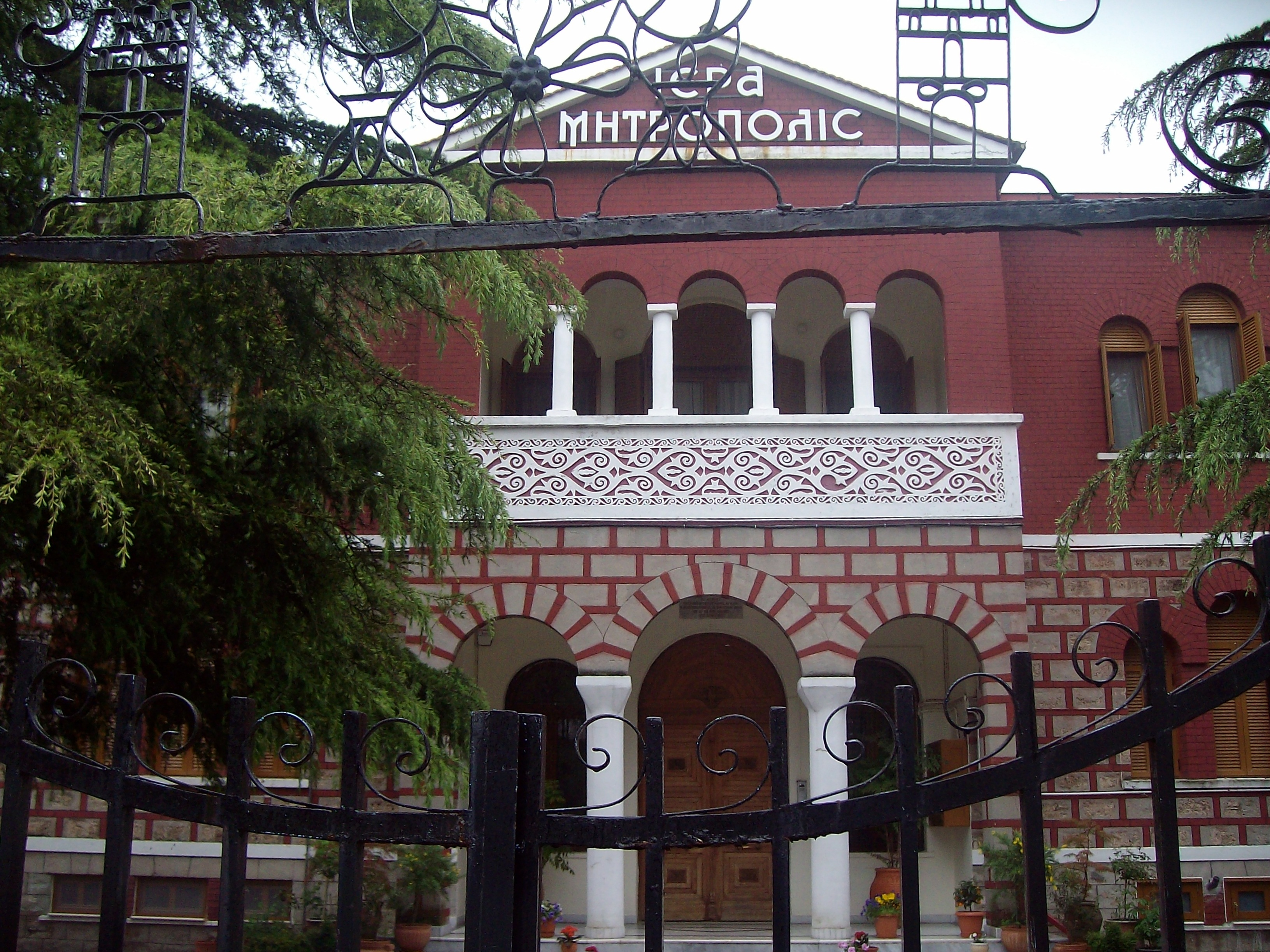 Metropolis of Edessa (Voden), Greece